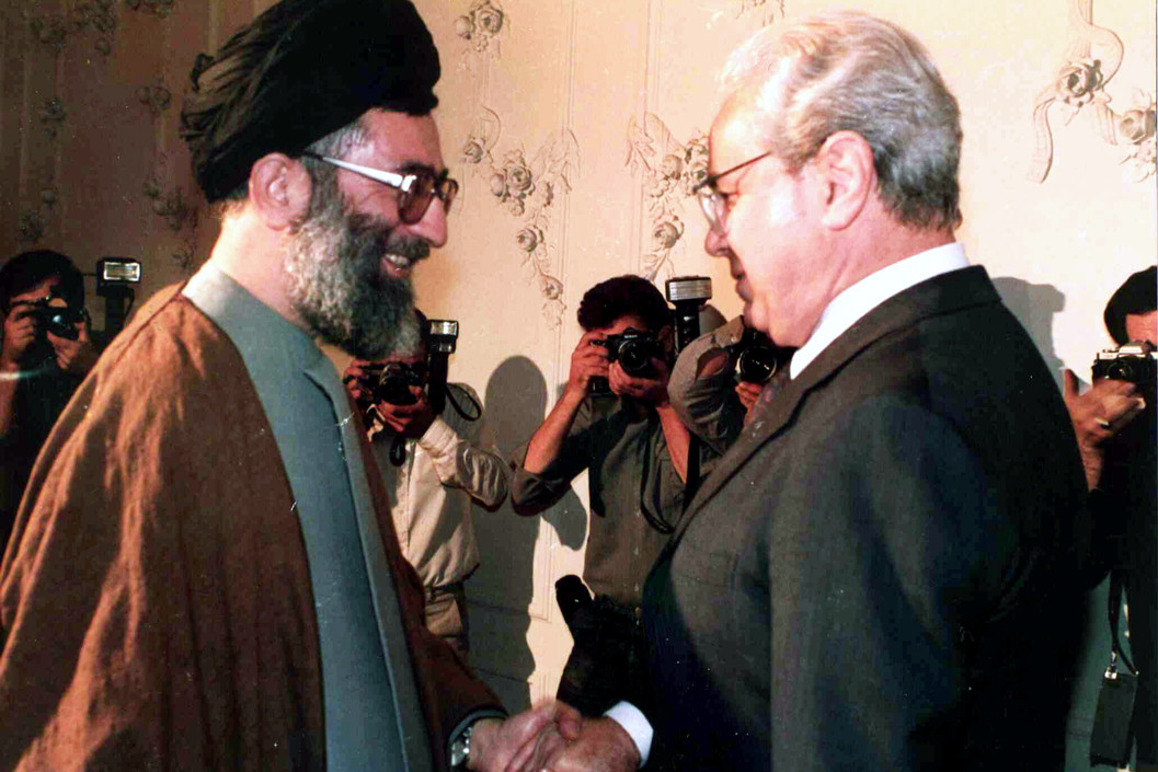 President Ali Khamenei and Javier Pérez de Cuéllar